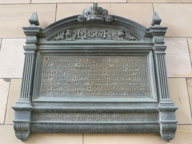 Edinburgh City Chambers tablet "On this site stood the lodging of Sir Simon Preston of Craigmillar, Provost of the City of Edinburgh 1566-7; in which lodging Mary Queen of Scotland after her surrender to the Confederate Lords at Carberry Hill spent her last night in Edinburgh, 15th June 1567. On the following evening she was conveyed to Holyrood and thereafter to Lochleven Castle as a state prisoner."